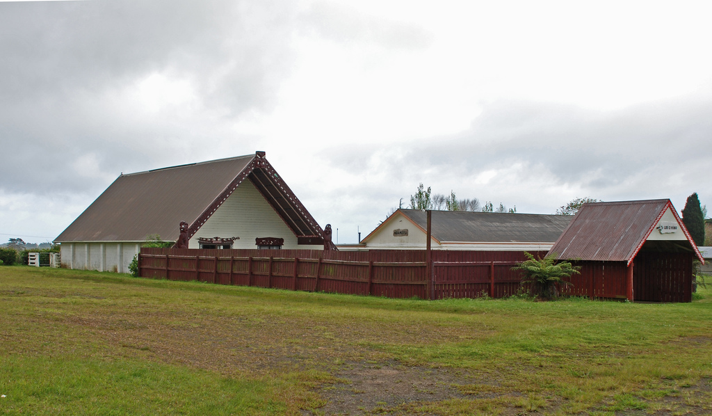 Nga Uriohina Marae, Pukepoto, Northland, New Zealand